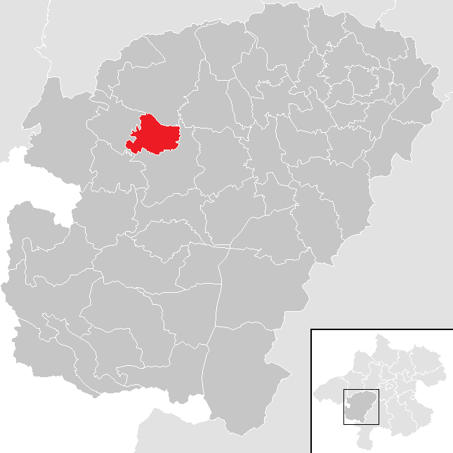 District Vöcklabruck